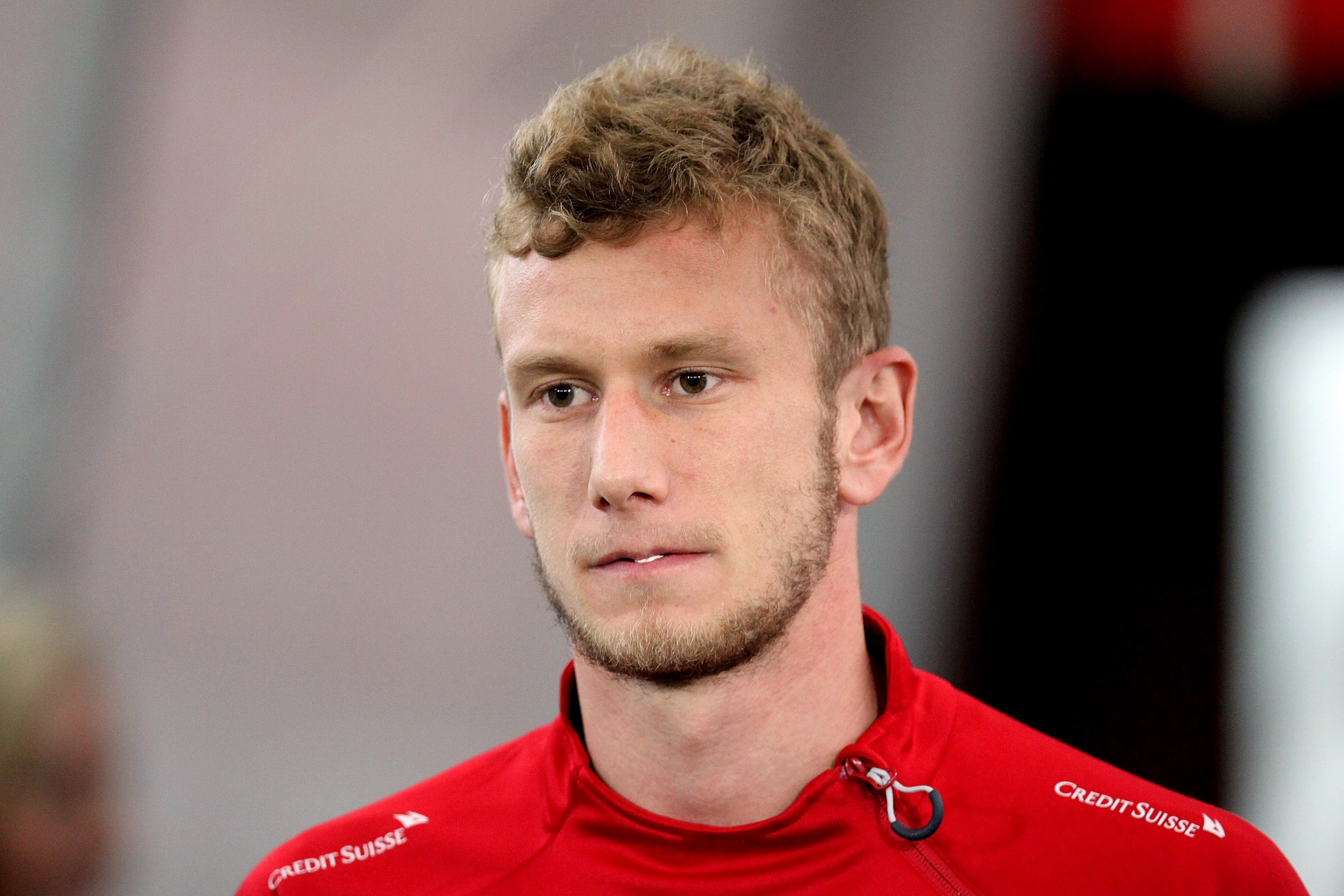 Friendly match – Austria (red shirts) vs. Switzerland (white shirts) 1-2 (1-2) – 2015-11-17 in Vienna, Ernst-Happel-Stadion – The photo shows Fabian Lustenberger (Switzerland).